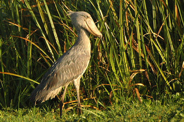 Uganda Shoebill Balaeniceps rex Murchison Falls December 2005